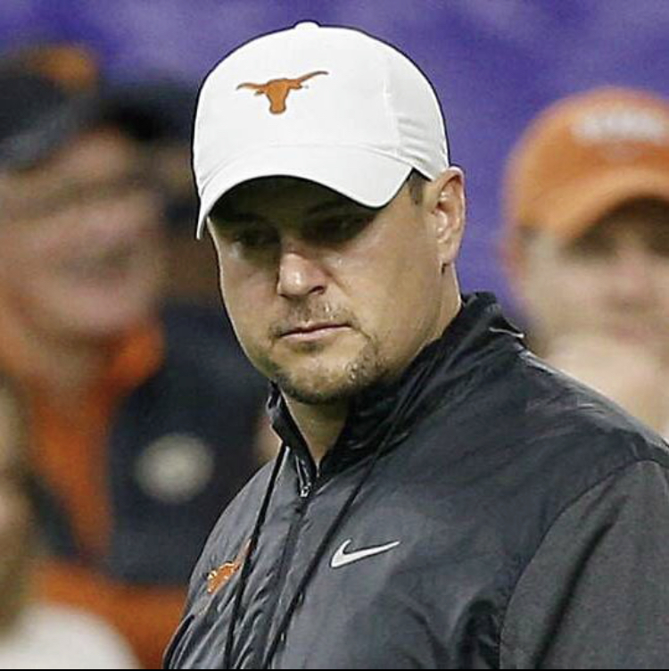 Tom Herman. this is my original work taken using my phone